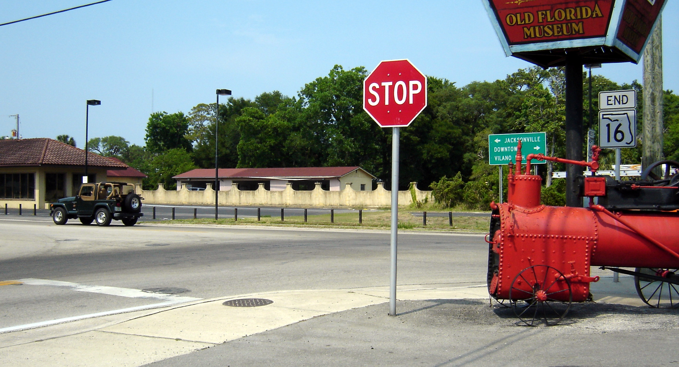 The eastern terminus of Florida State Road 16 at U.S. 1 in St. Augustine, Florida, on May 28, 2006. Cropped and color-corrected with the GIMP.